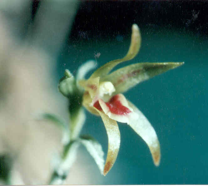 Original photo of Tomzanonia filicina